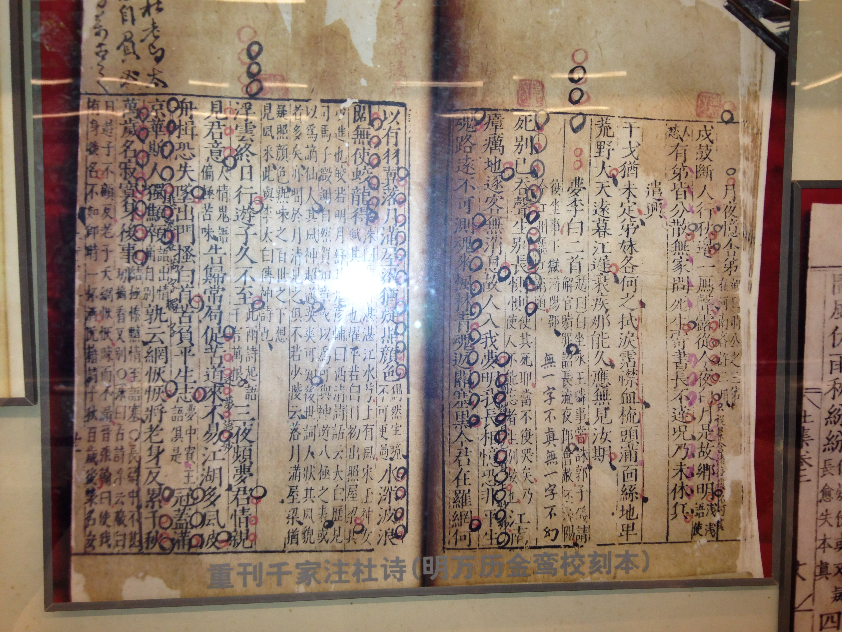 Du Fu's poems（Ming dynasty，about the 17th century）